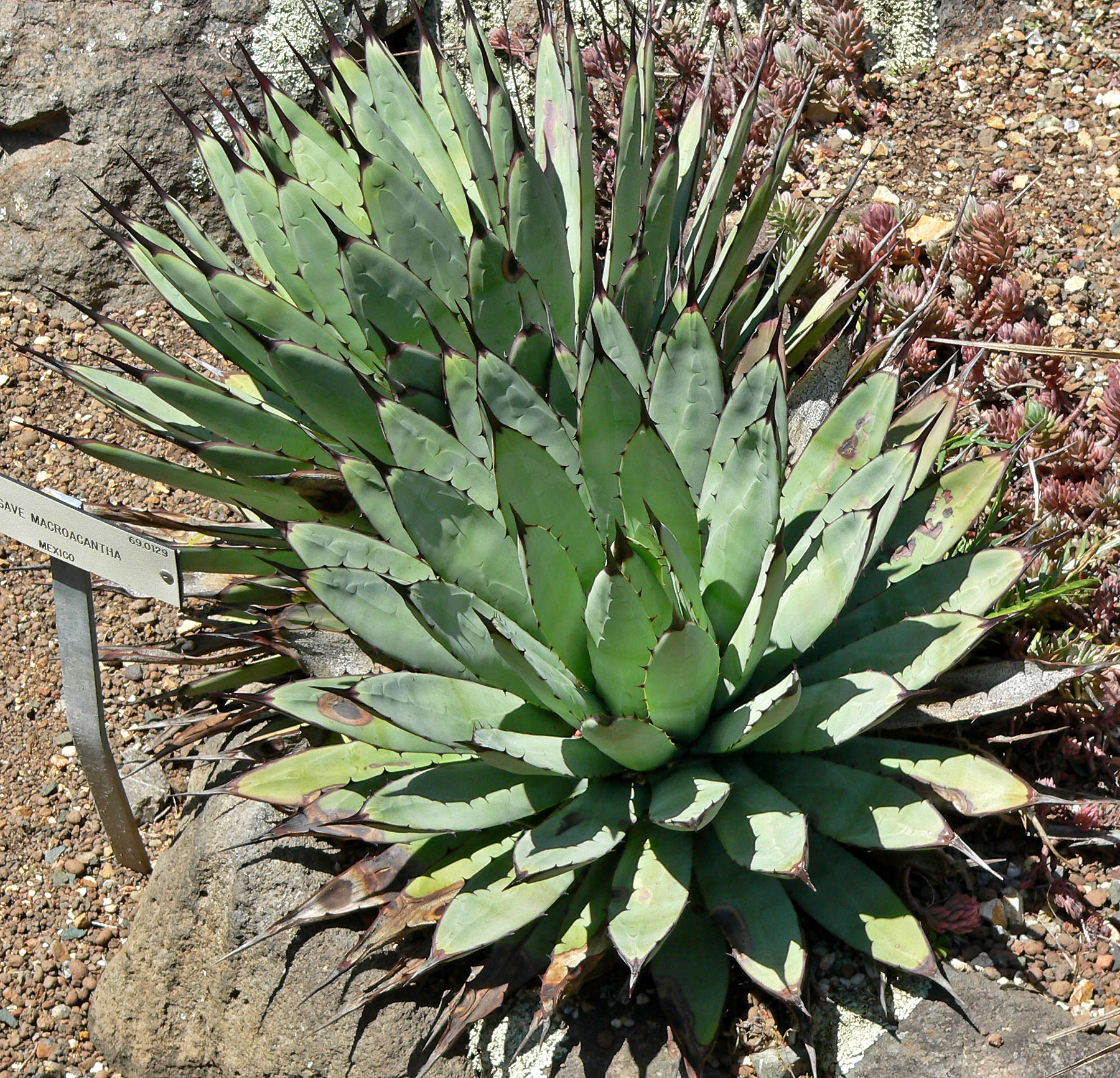 Agave macroacantha at the University of California Botanical Garden, Berkeley, California